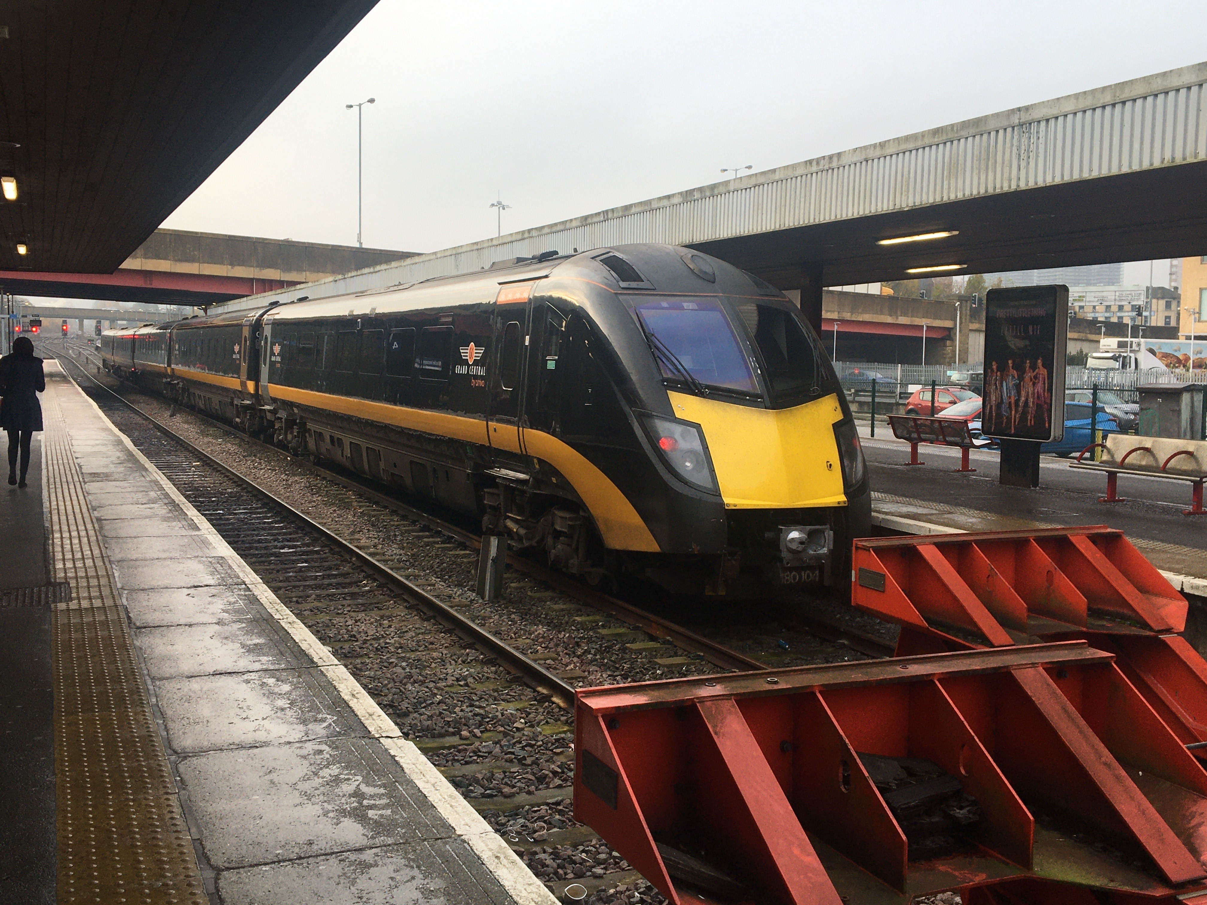 A Grand Central Class 180 (180104) sits at Bradford Interchange station, bound for London Kings Cross, November 2019